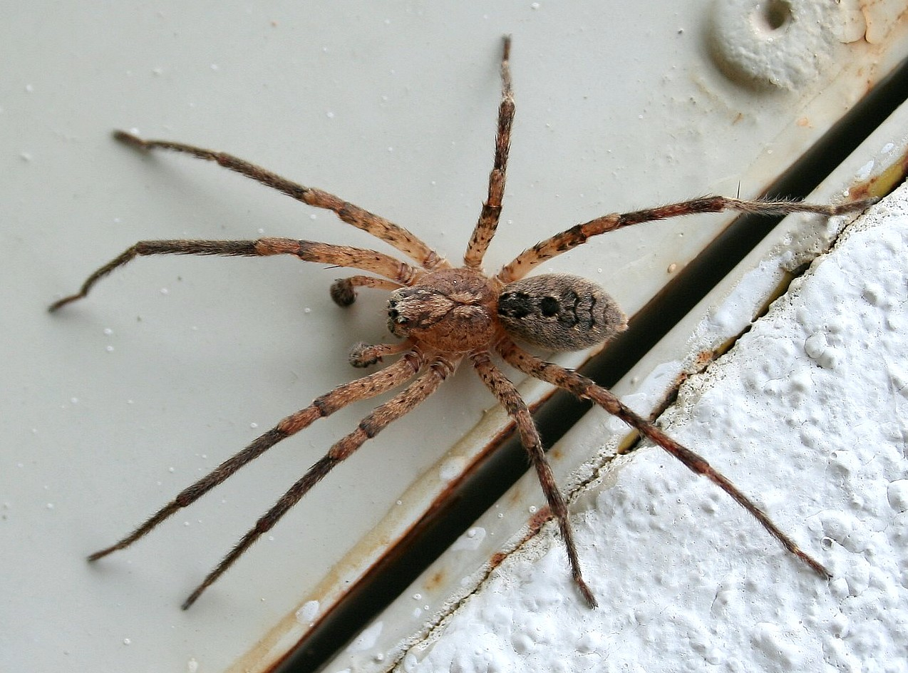 Zoropsis spinimana